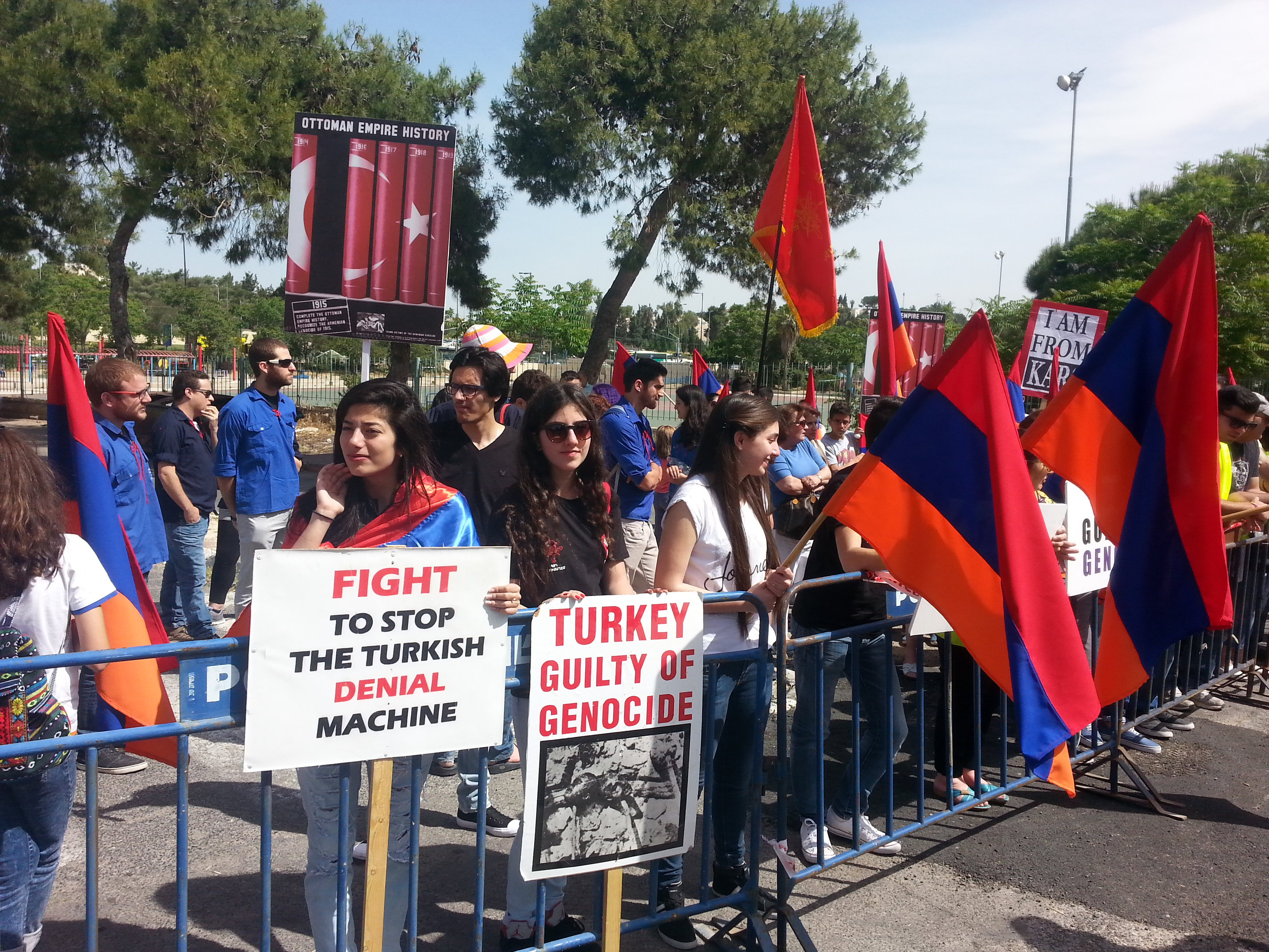 At the Turkish Consulate General in Jerusalem